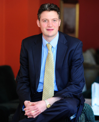 Minister for Energy and Conservation of Water of the Republic of Malta